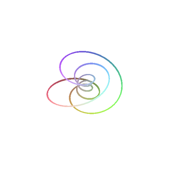 A picture of the singularity link of the butterfly curve, created by me User:Gene Ward Smith and released to the public domain.